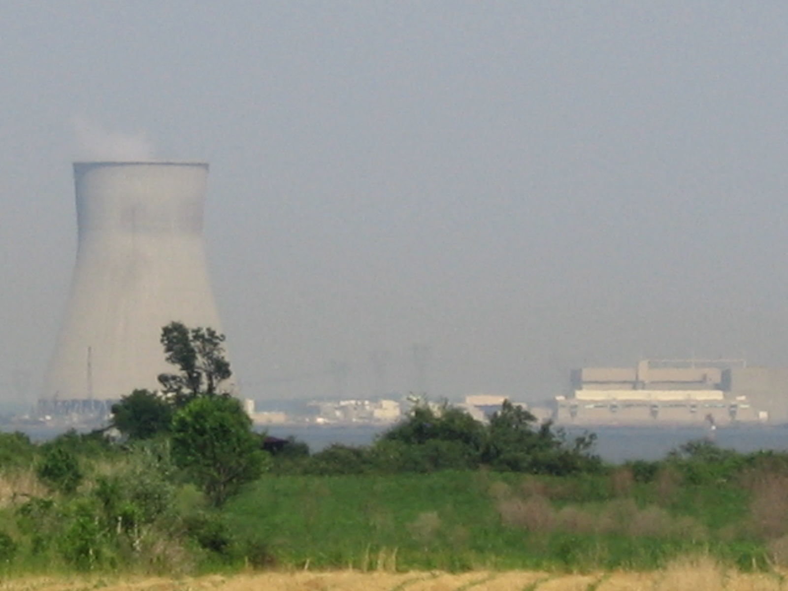 The Hope Creek portion of the PSE&G nuclear complex in Lower Alloways Creek as seen from Augustine Beach